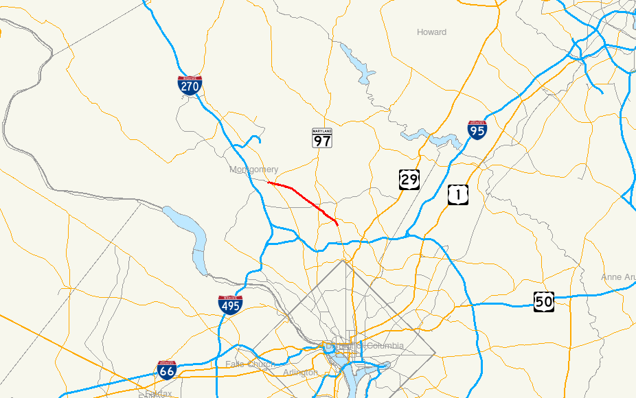 Map of Maryland Route 586